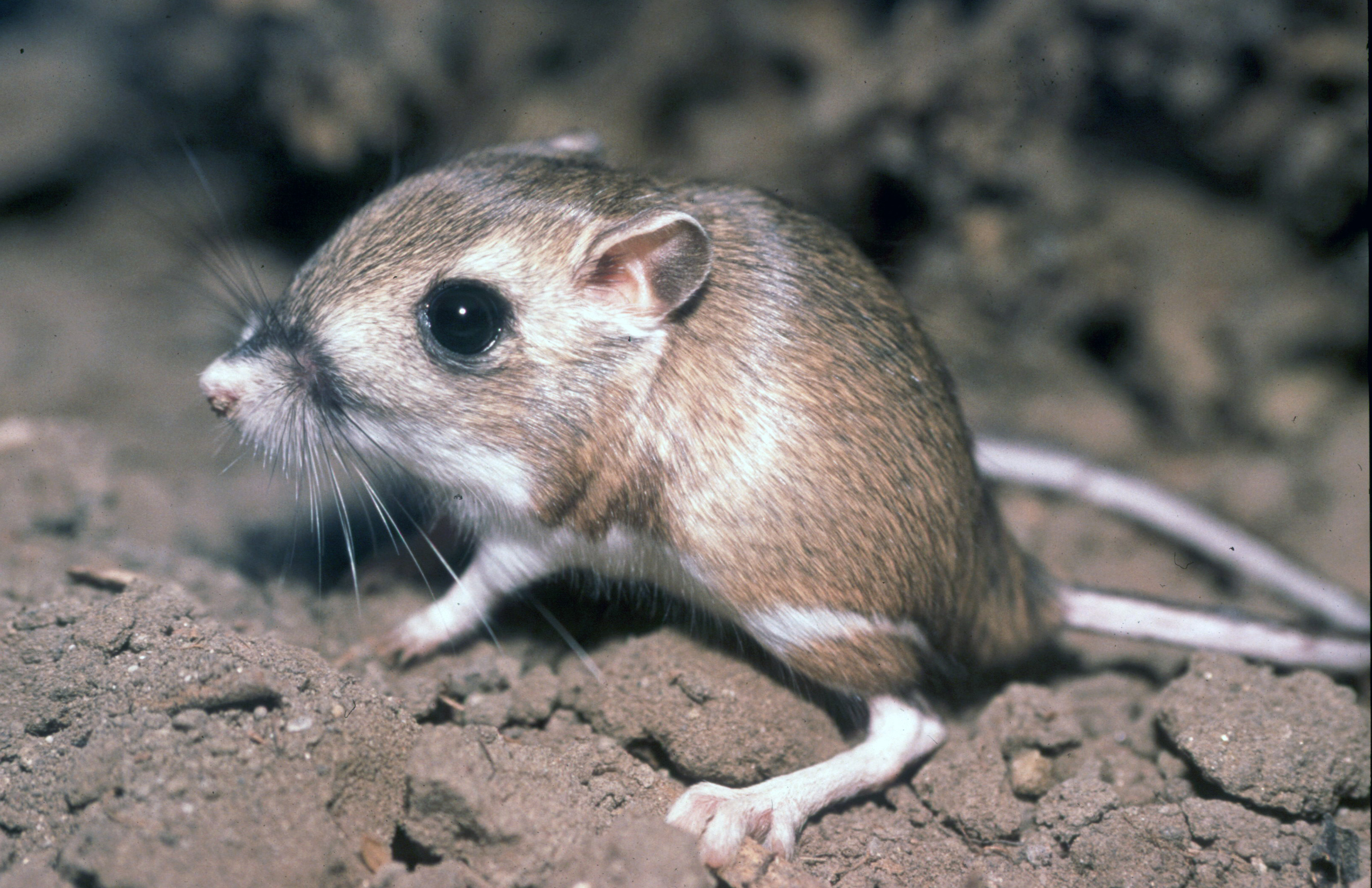 The endangered Tipton kangaroo rat has lost much of it's historic range with only about 4% remaining. Currently it is limited to scattered, isolated areas. In the southern San Joaquin Valley this includes the Kern National Wildlife Refuge, Delano, and other scattered areas within Kern County. (USFWS)